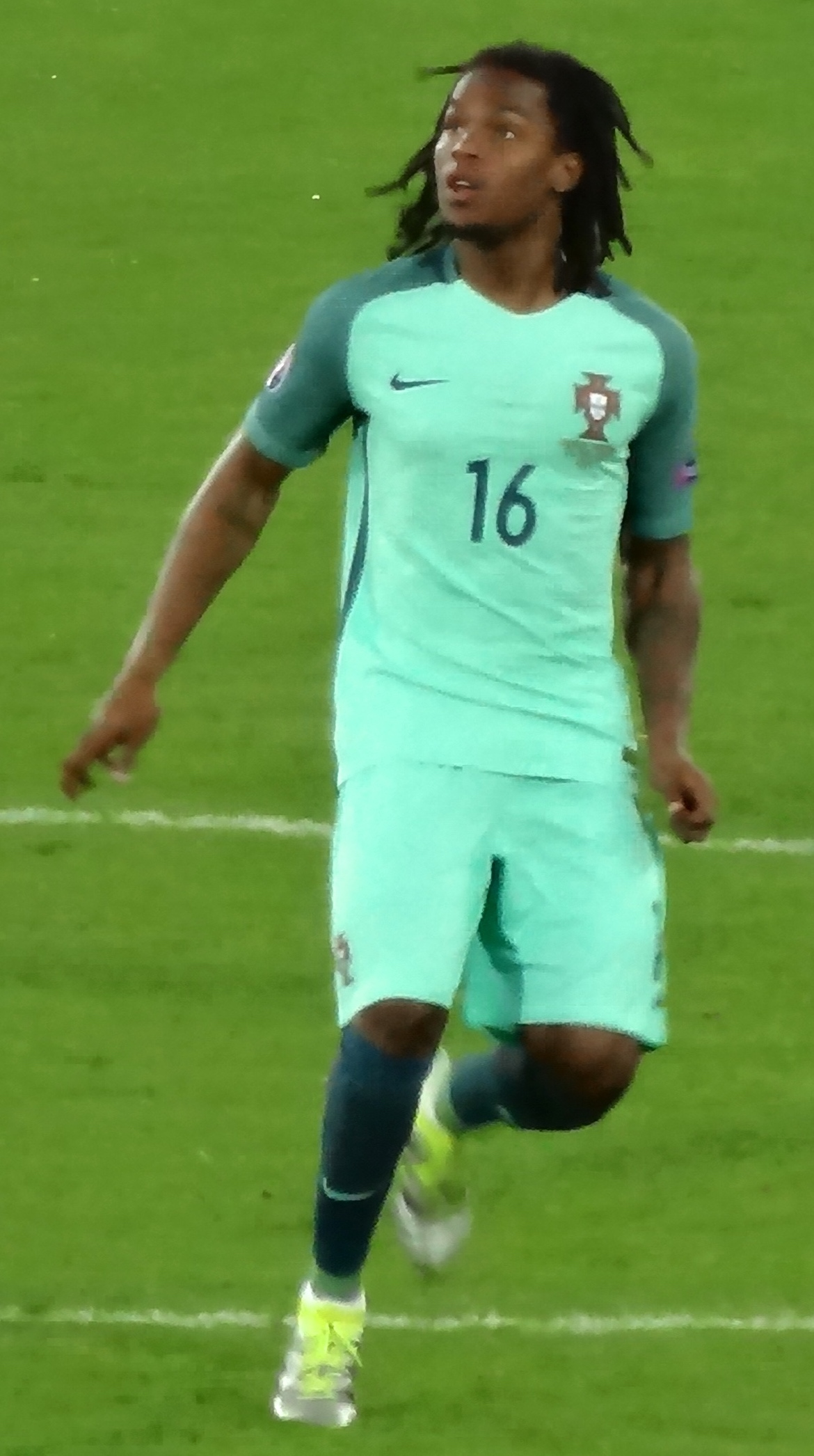 Renato Sanches à l'Euro 2016